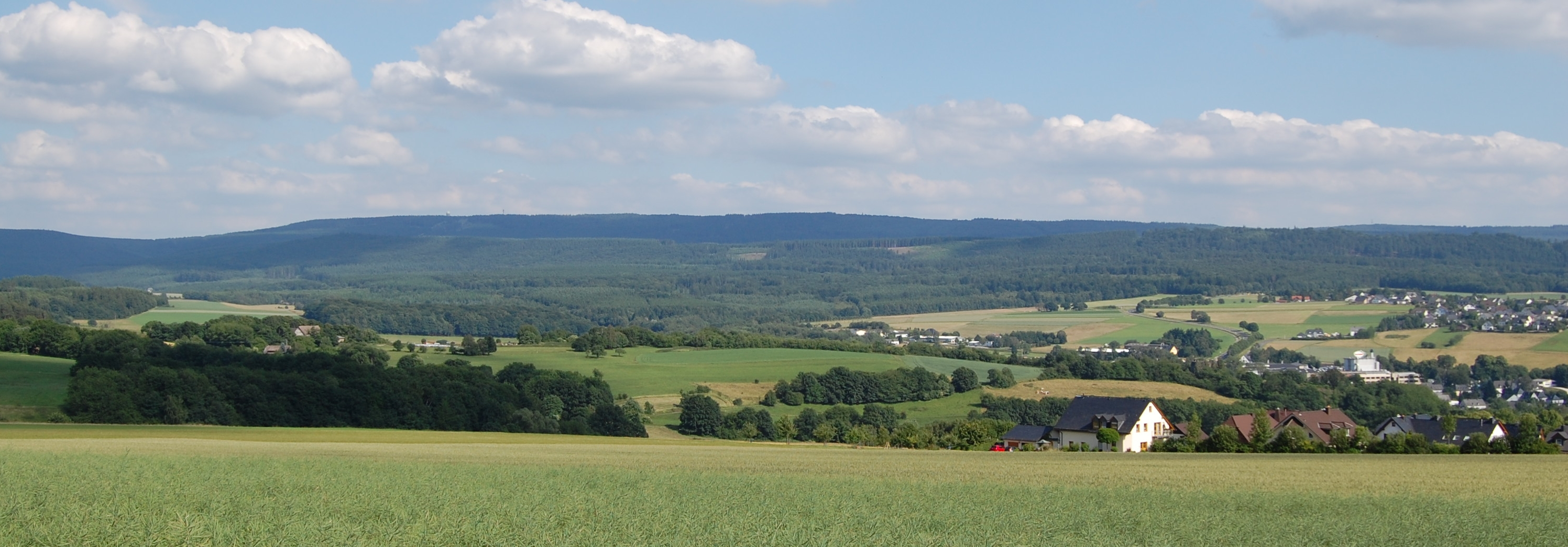 Erbeskopf and the Hochwald in the Hunsrück landscape, Germany